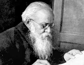 Photograph of Ramananda Chatterjee (29 May 1865 - 30 September 1943), known as the father of Indian journalism.